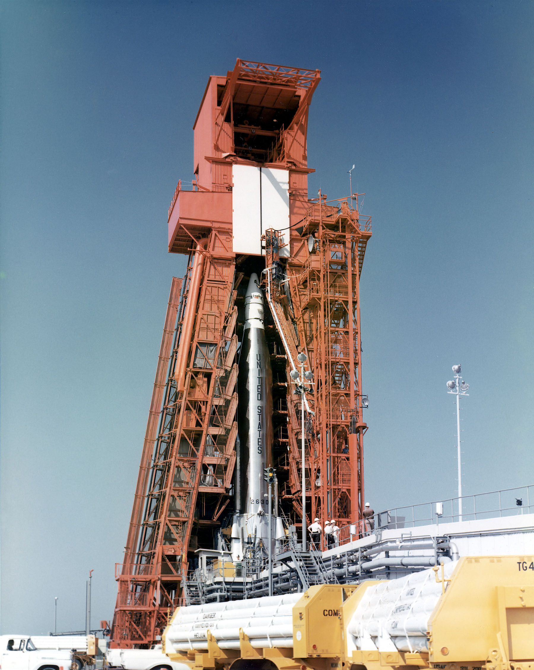 Gantry pull back at Cape Canaveral Launch Complex 12 for an Atlas-D launch with Project Fire 1. In foreground trailers with Helium pressure bottles.